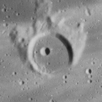 Kepler D crater, west of Kepler, on the moon.